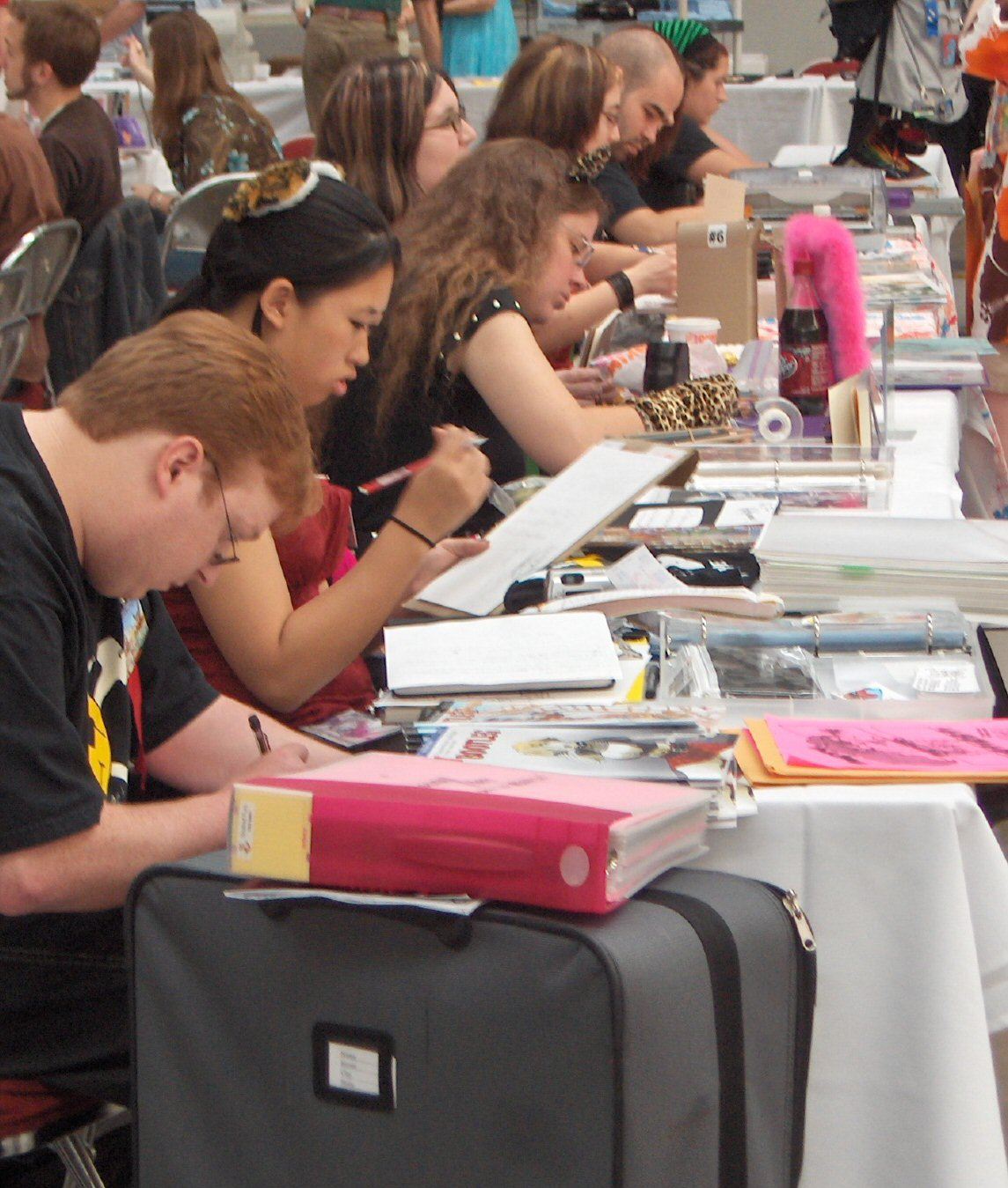 Artists Alley at Anthrocon 2006, a popular furry convention